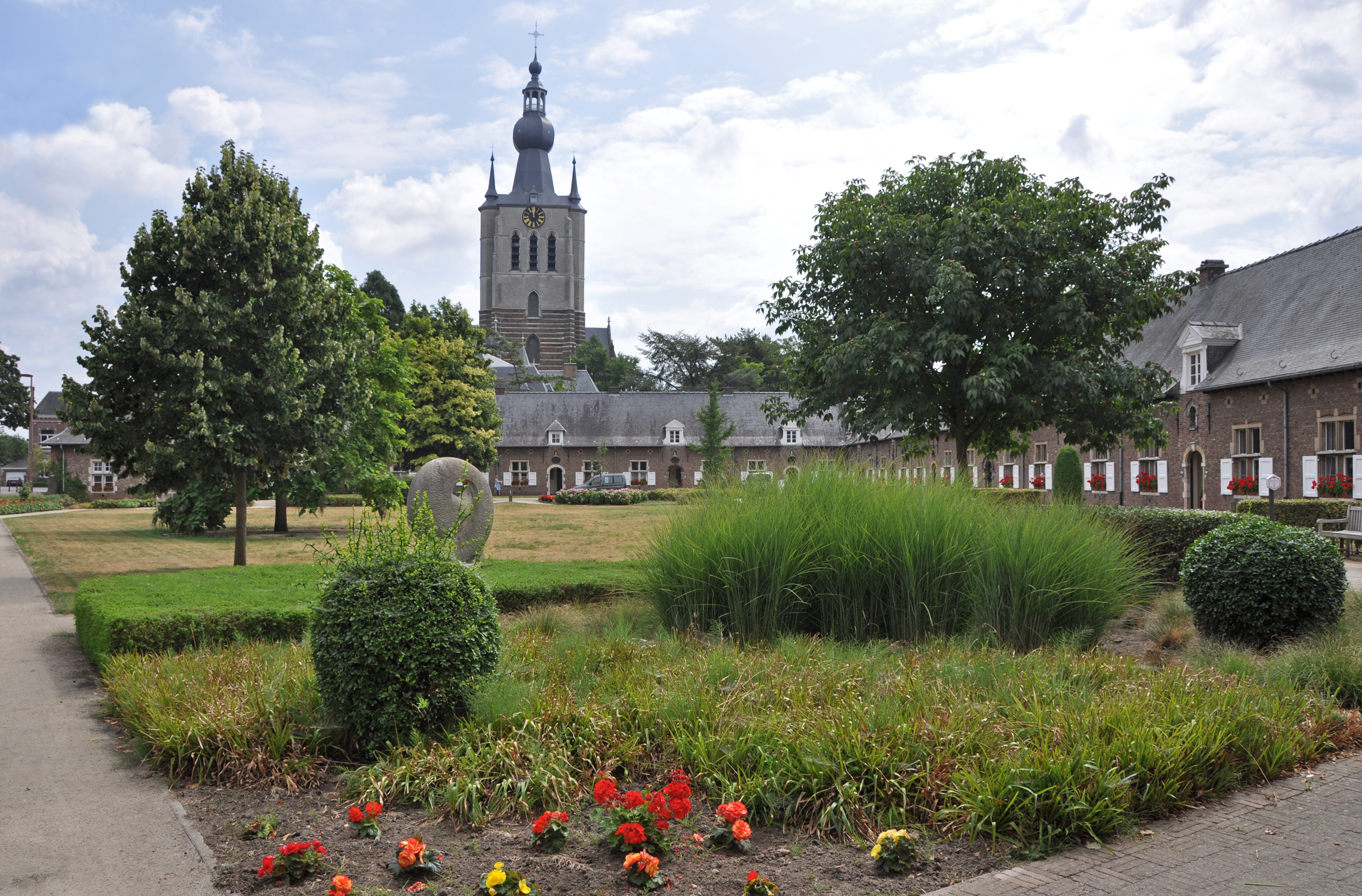 Aarschot (Belgium): the beguinage and the tower of St Mary's church